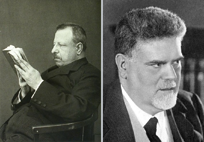 Portrait of the italian idealists Benedetto Croce e Giovanni Gentile